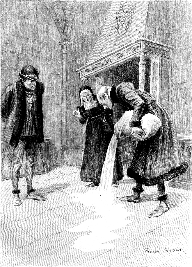 Illustration of Honoré de Balzac's Master Cornelius (1832).